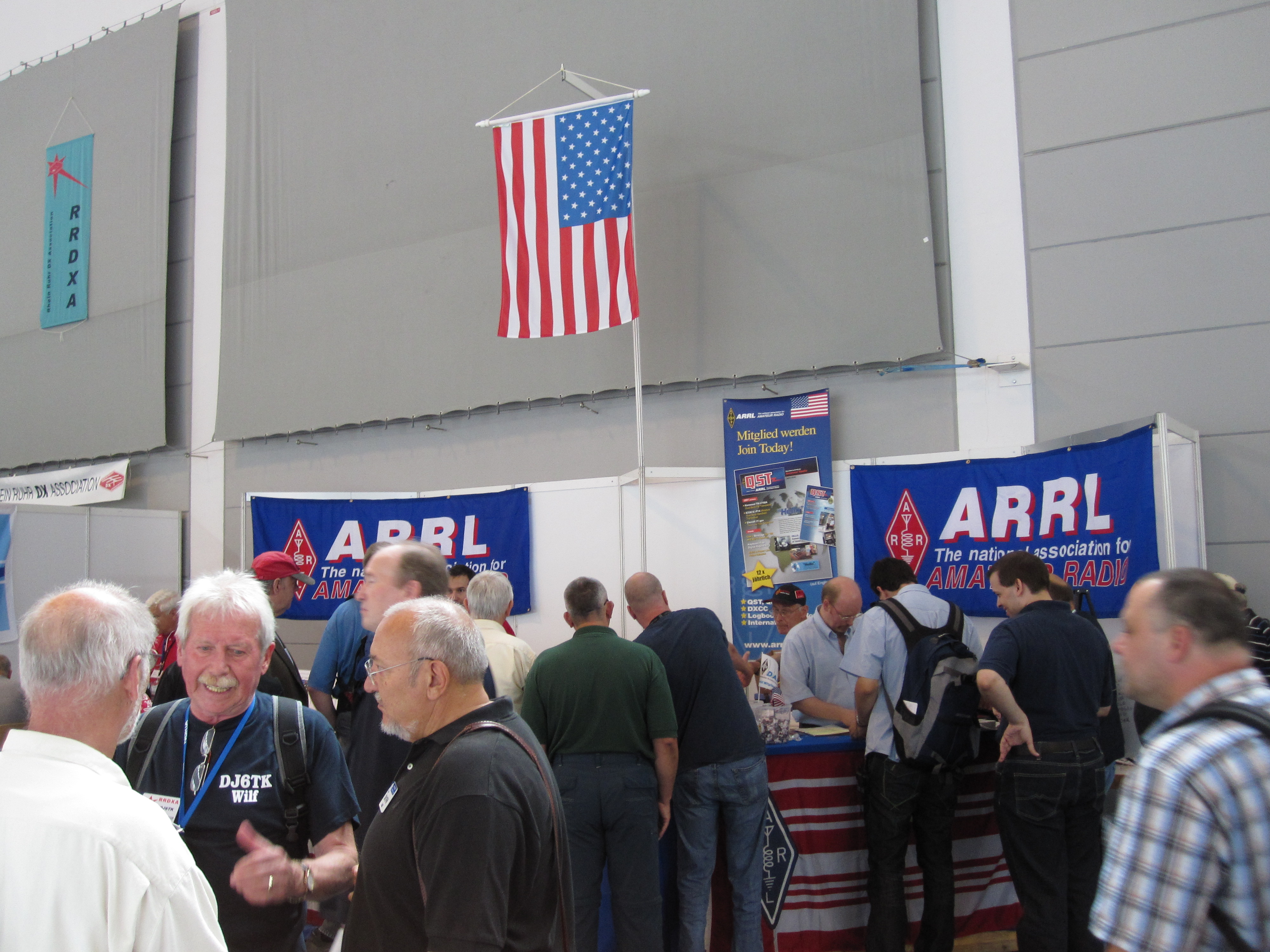 ARRL booth at Ham Radio fair in Friedrichshafen, Germany